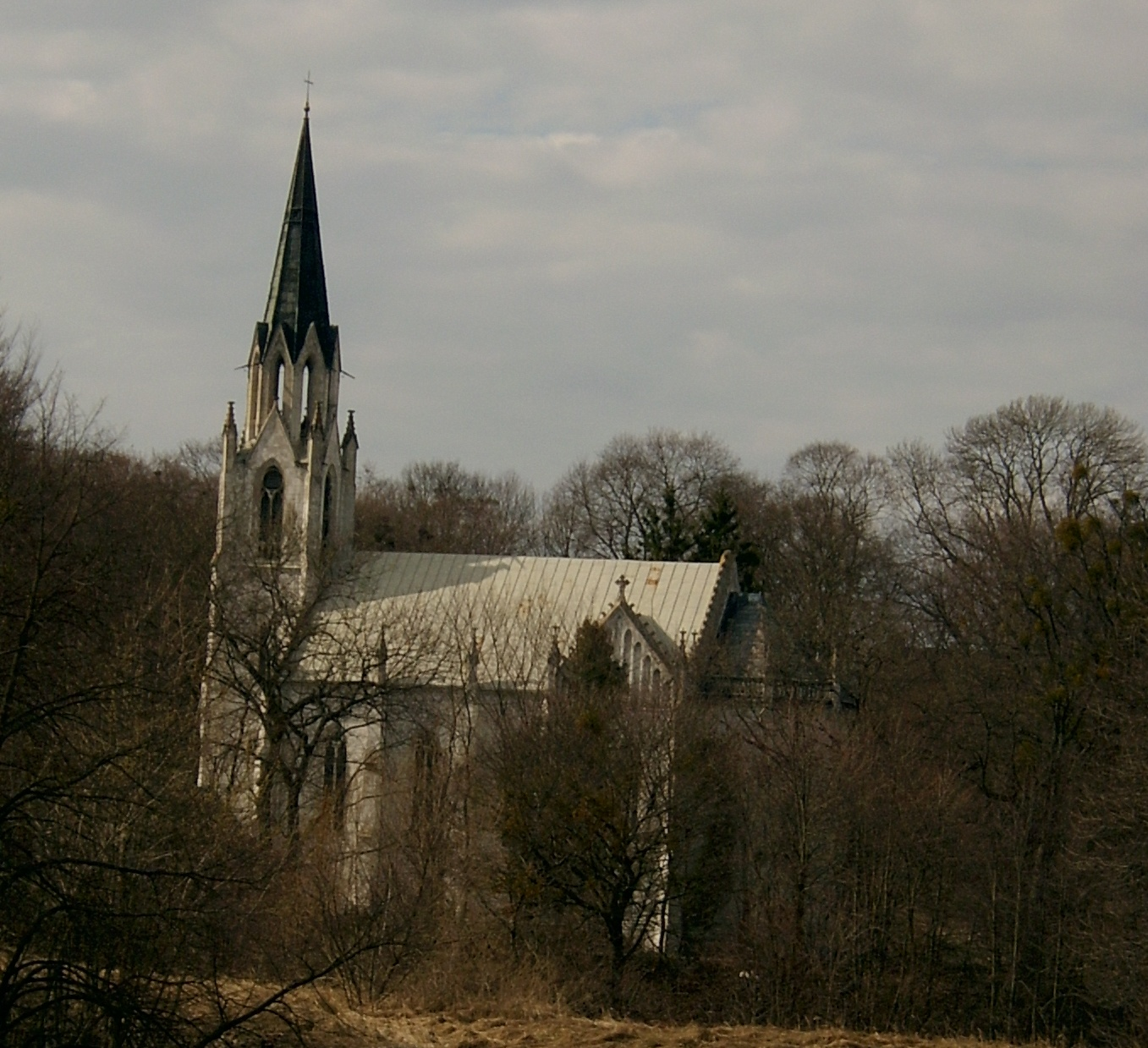 Church in Jabłonowo Pomorskie